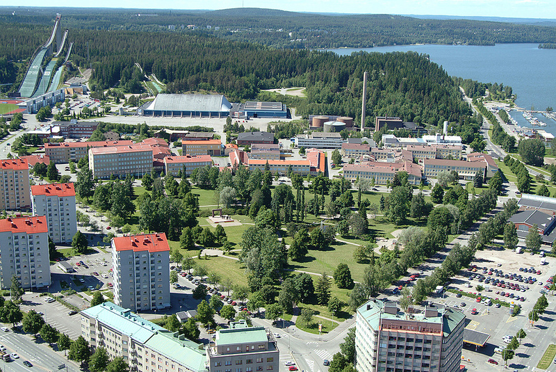 LAMK kampusalue